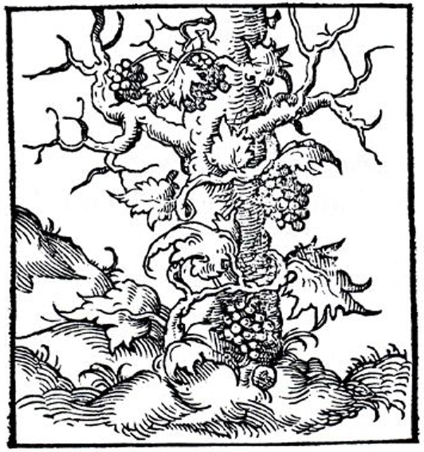 Rumpotin of Pline and Columelle